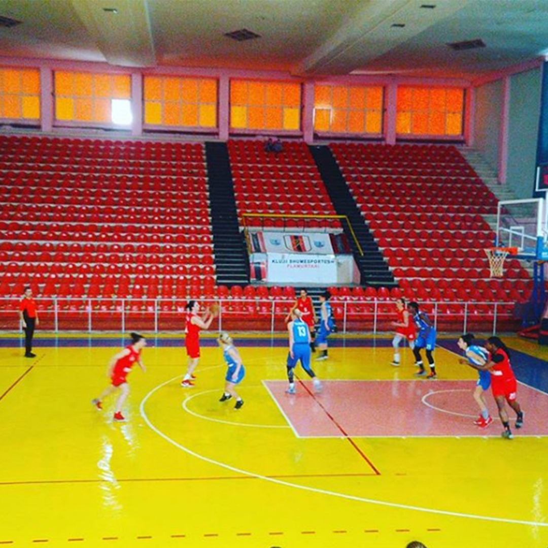 BC Flamurtari Vlorë women's against BC Teuta Durrës women's at the Flamurtari Sports Palace in March 2019.